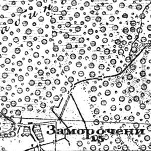 Zamorochennia on the map "Военно-топографическая карта Российской Империи" (known as "Schubert's map"), XX 5, 1866-1887 (issued in 1913).